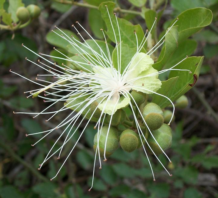 Flower of Capparis tomentosa at Ilanda Wilds, South Africa